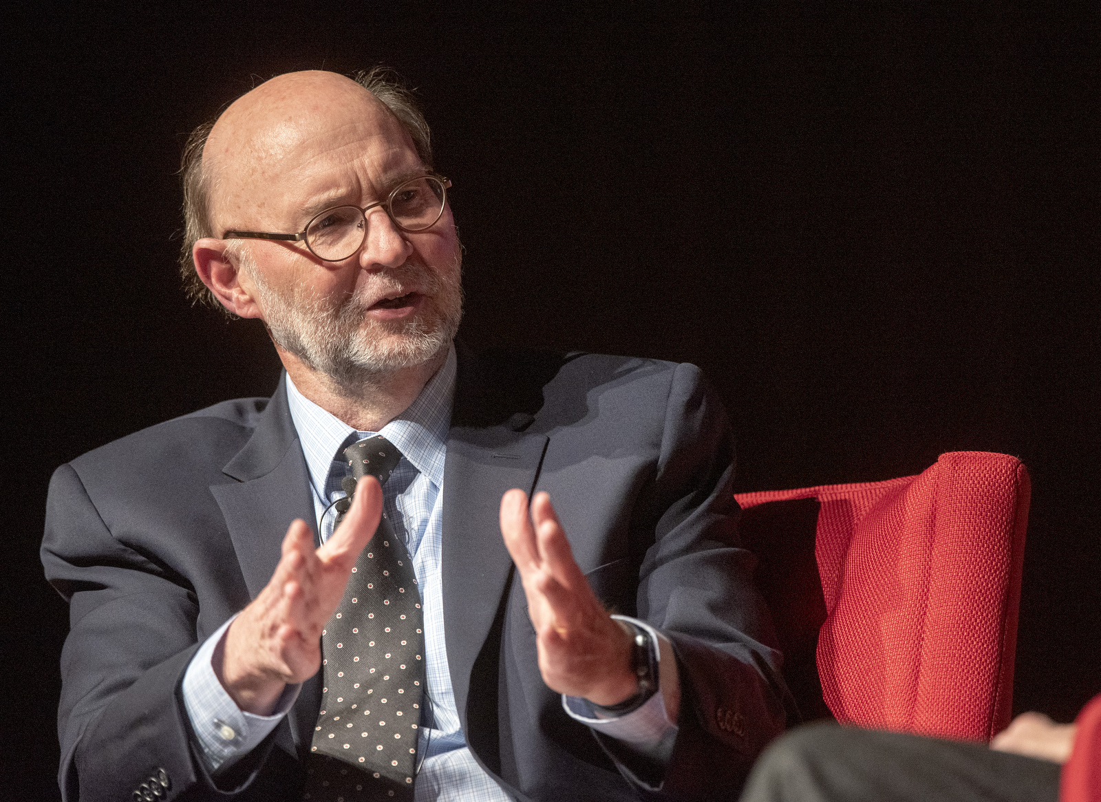 On Monday, April 15, 2019, two-time Pulitzer Prize-winning author Robert Caro joined Friends of the LBJ Library to speak about his new book, Working, a collection of vivid, candid, and deeply revealing stories about researching and writing his acclaimed books. Caro has written four volumes of his planned five-volume biography of President Lyndon Johnson, The Years of Lyndon Johnson, as well as The Power Broker about New York urban planner Robert Moses. Austin author and screenwriter Stephen Harrigan moderated the conversation.